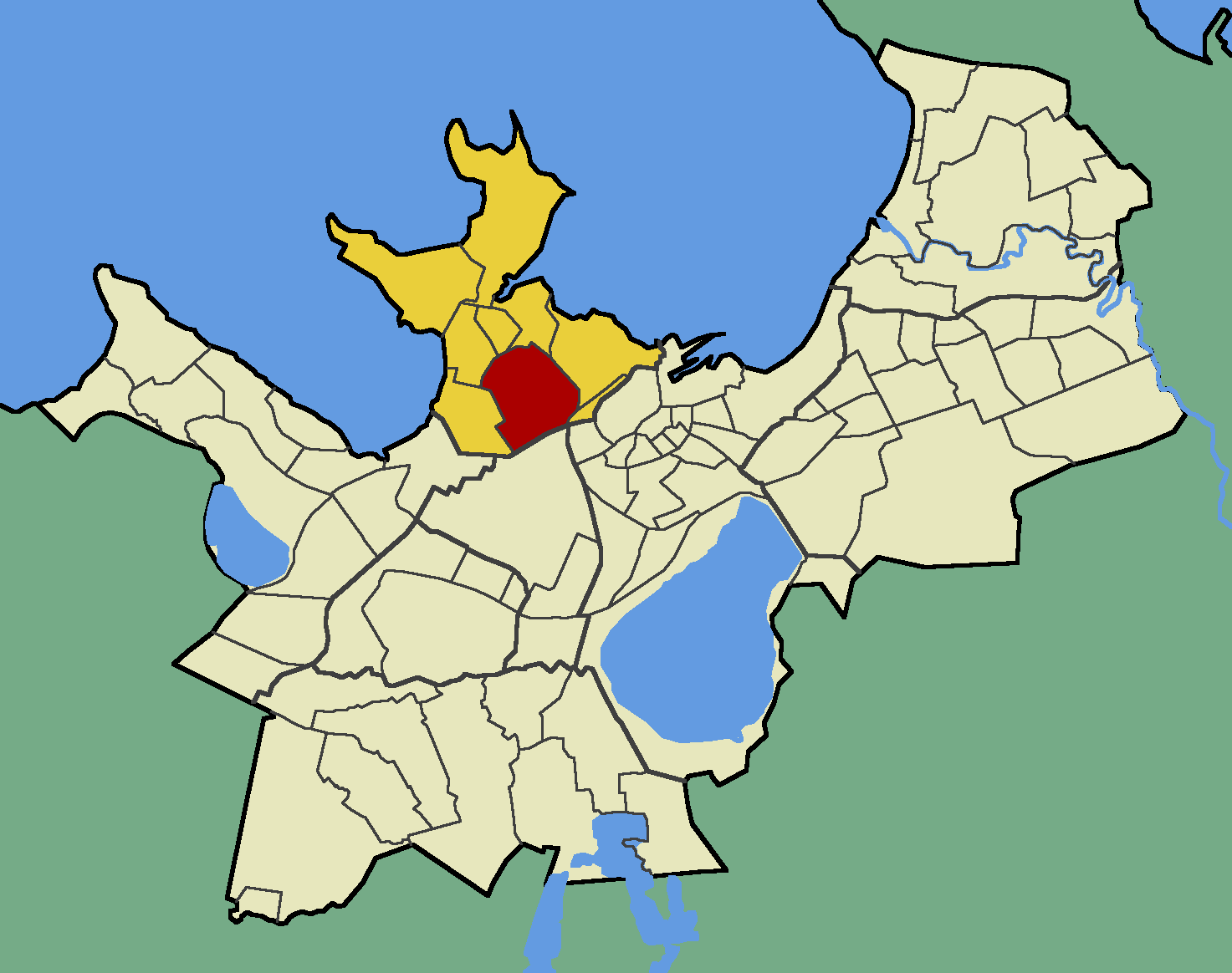 Map of Tallinn (Estonia) with borders of the quarters, Põhja-Tallinn district and Pelgulinn quarter emphasised